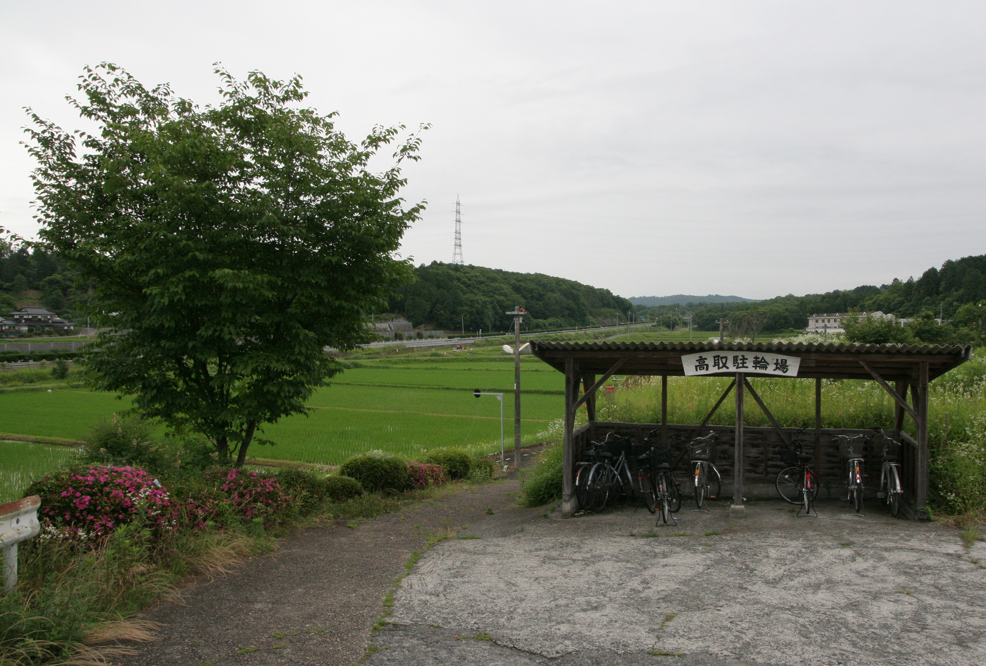 West Japan Railway Company Kishin Line nishi katsumada sta